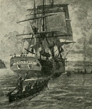 Artist sketch of ship on the Columbia River (Wikipedia en Inglés)